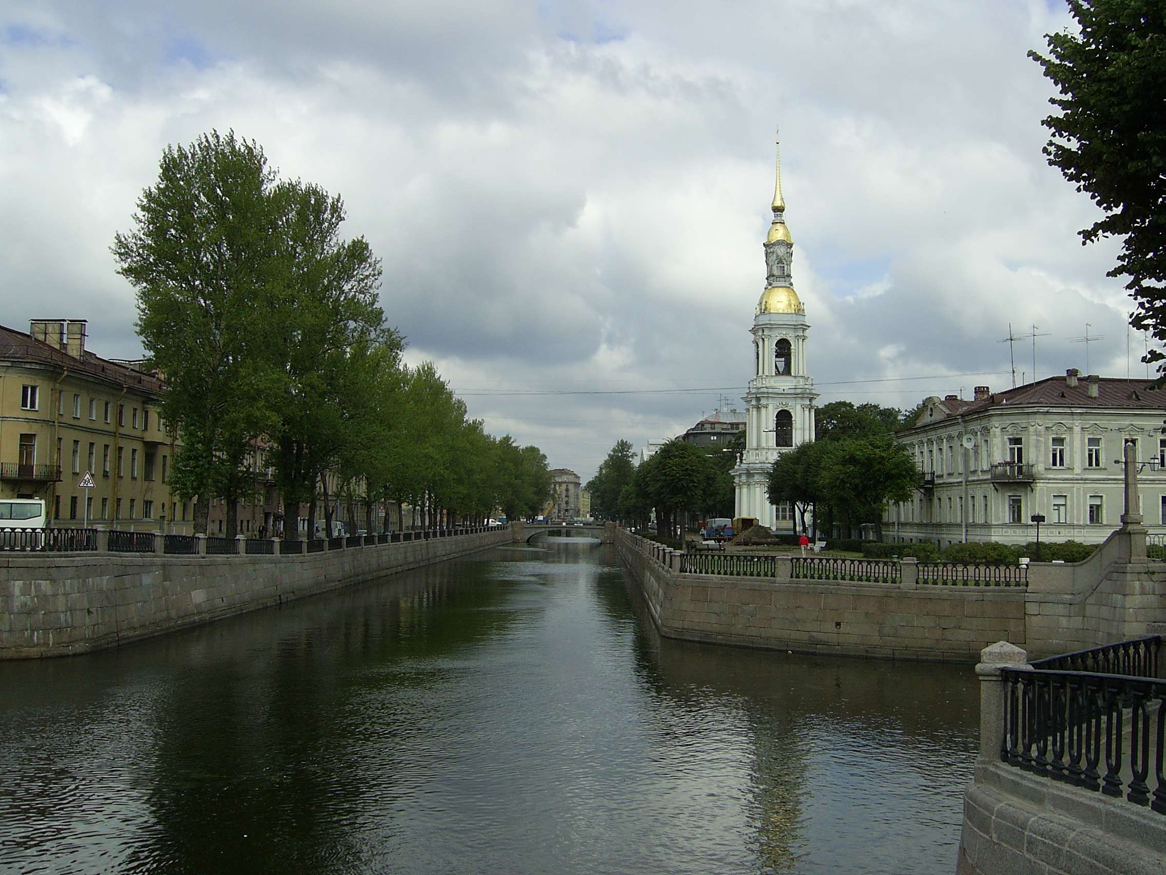 Krjukov channel in Saint-Petersburg